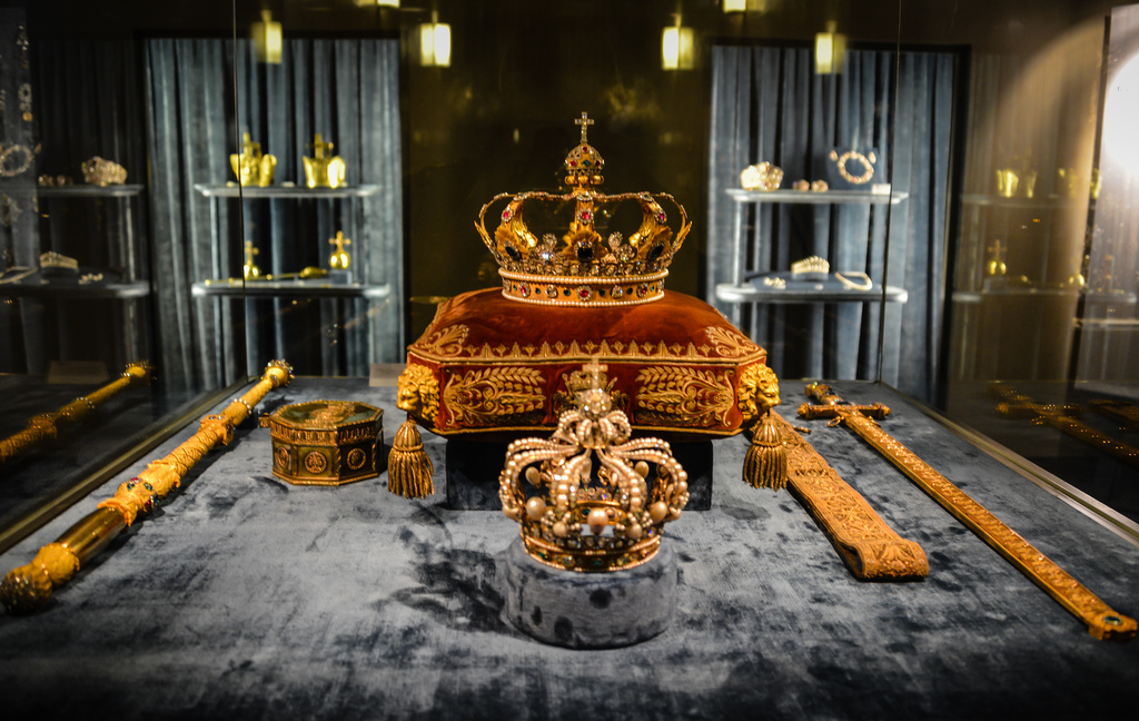 Better Picture of Bavarian Regalia